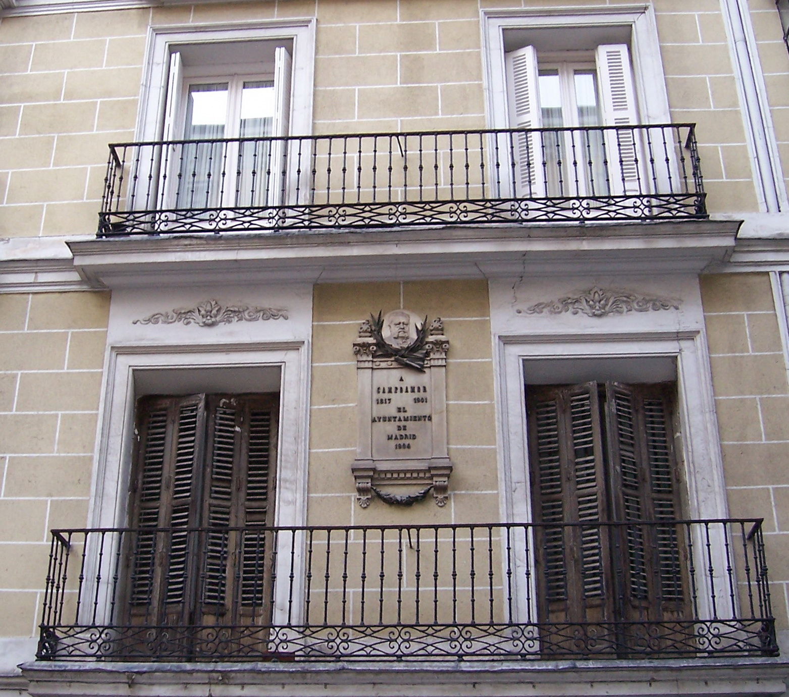 Street of Recoletos (Recoletos neighborhood), Madrid, Spain. Apartment building. Plaque in homage to the poet Campoamor who lived and died on this street, in house no. 19.